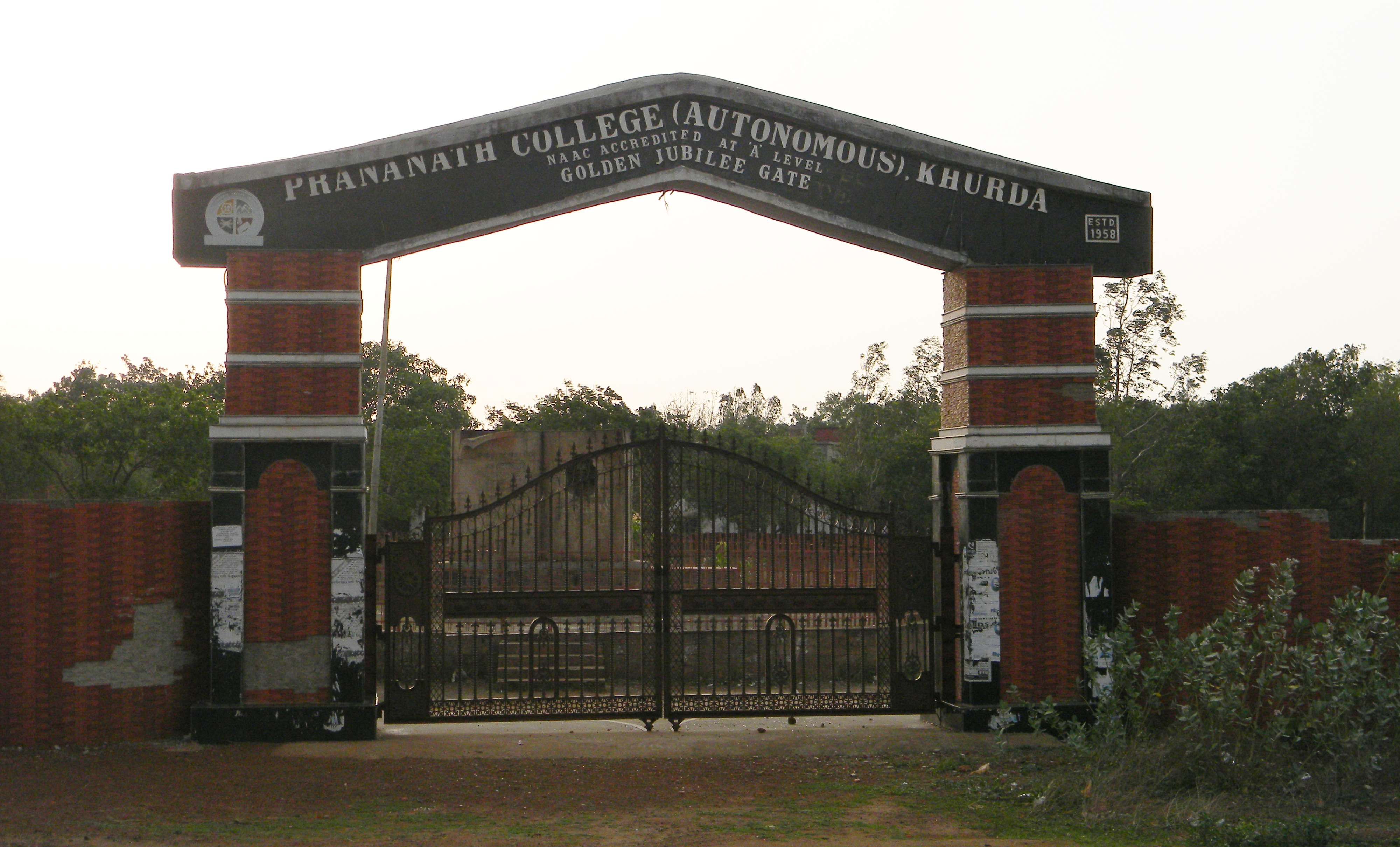 ଓଡ଼ିଆ: P N College, Khordha This media file is uploaded with Odia loves Wikipedia English |italiano |македонски |മലയാളം |ଓଡ଼ିଆ +/−